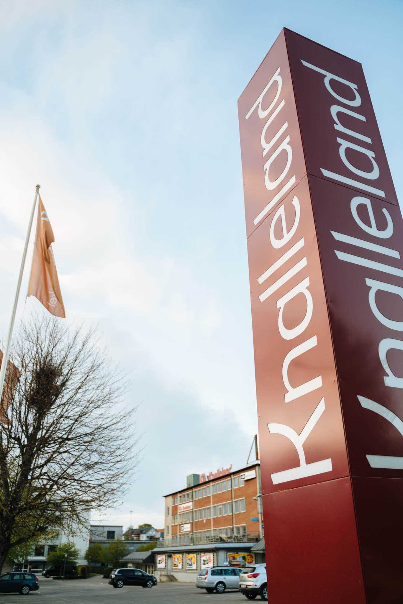 The shopping centre Knalleland located in Borås, Sweden.